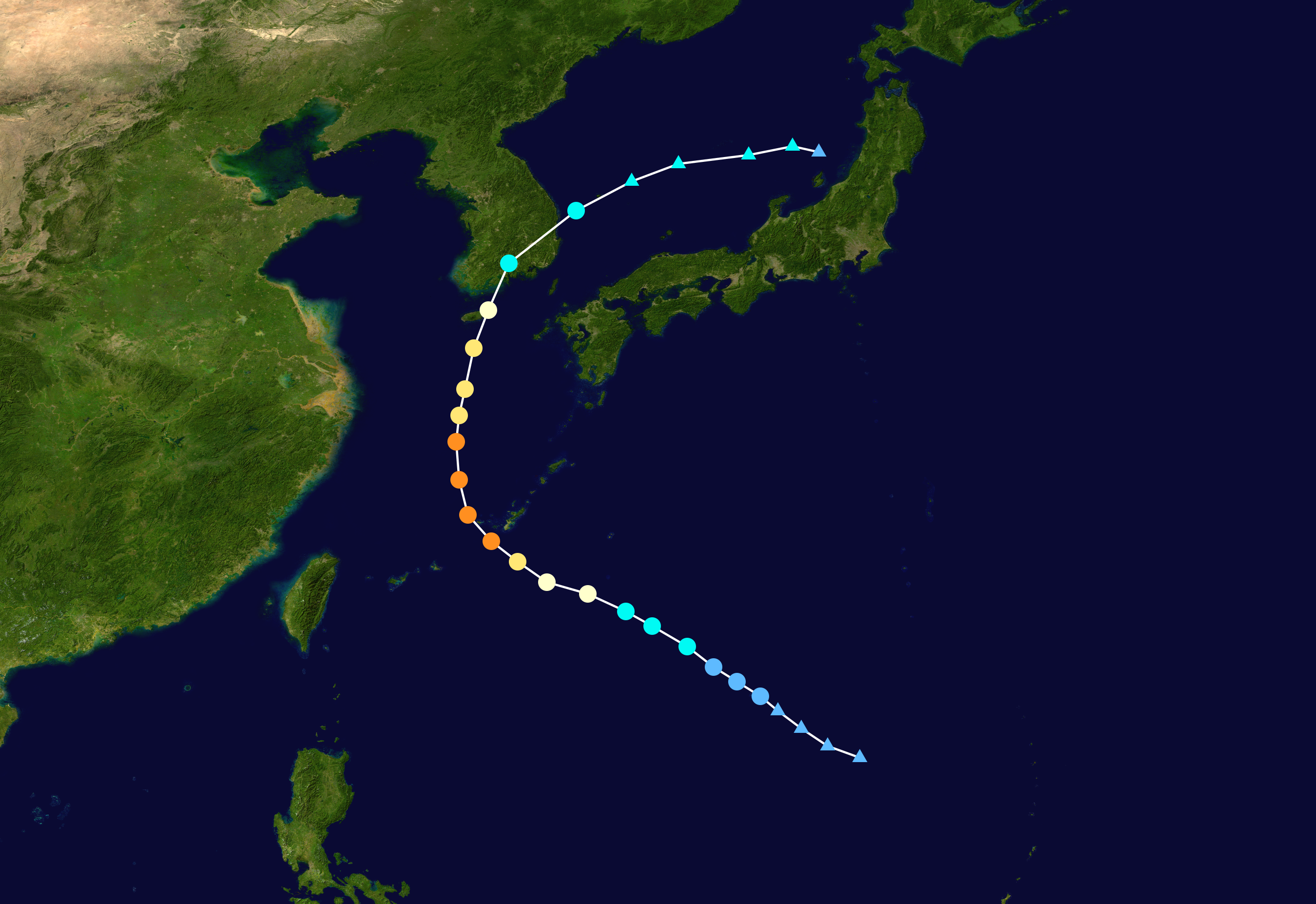 Typhoon Nari track. Uses the color scheme from the Saffir-Simpson Hurricane Scale.